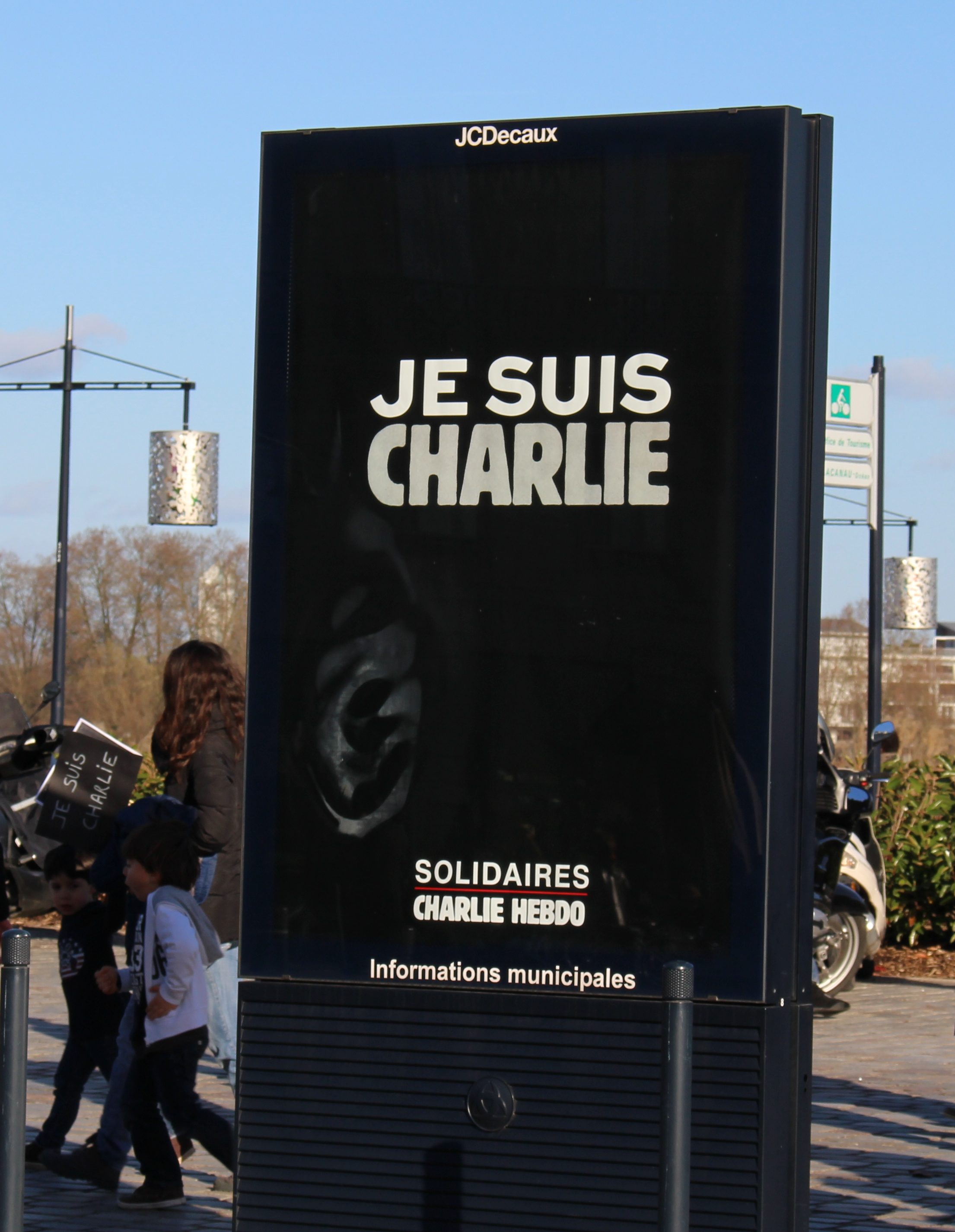 The city of Bordeaux replaced some of the advertisements on city boards by "Je suis Charlie" posters to support Charlie Hebdo.